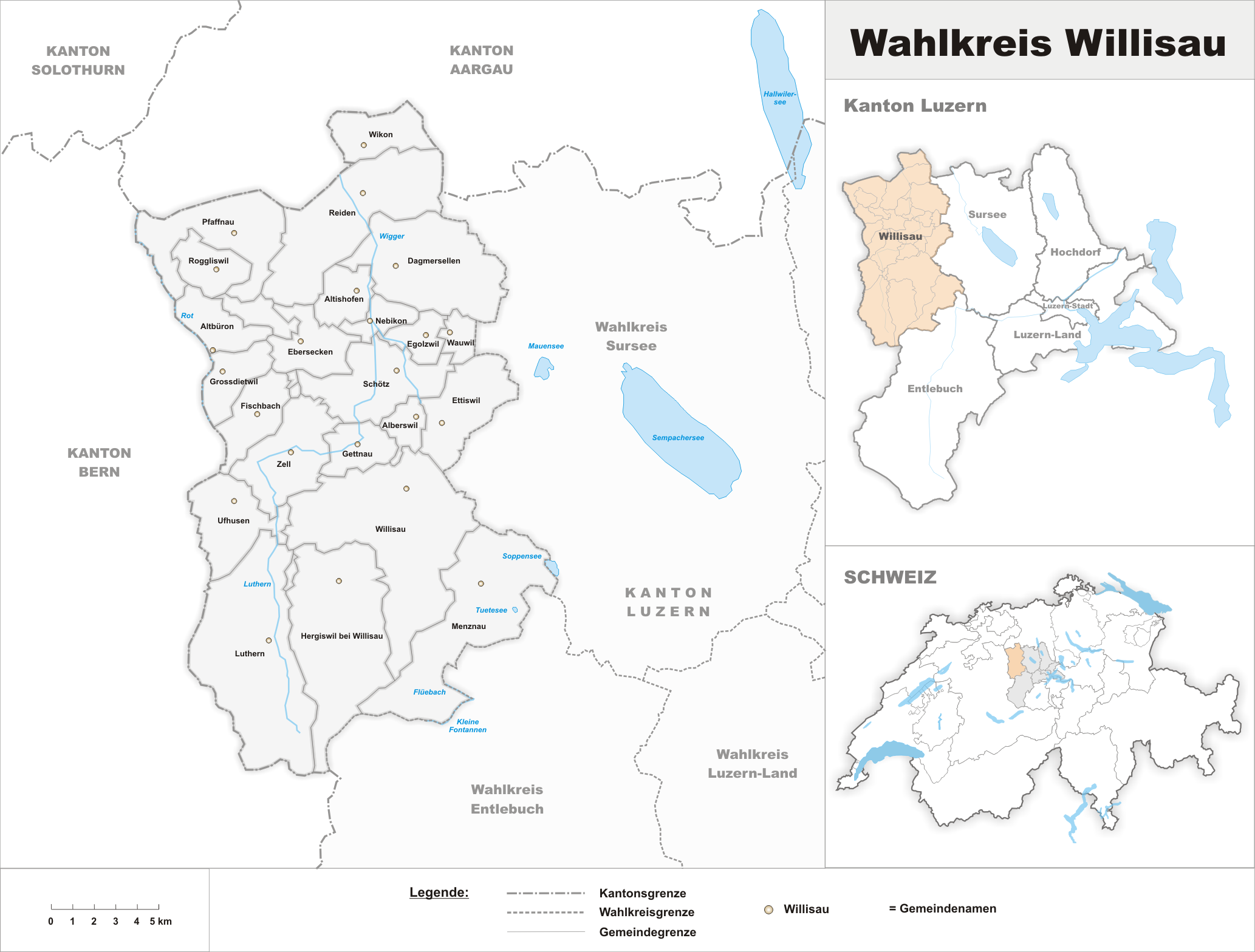 Municipalities in the district of Willisau Map drawn by Tschubby